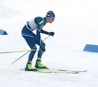 Finnish nordic combined skier Mikke Leinonen at Lahti Ski Games 2014.